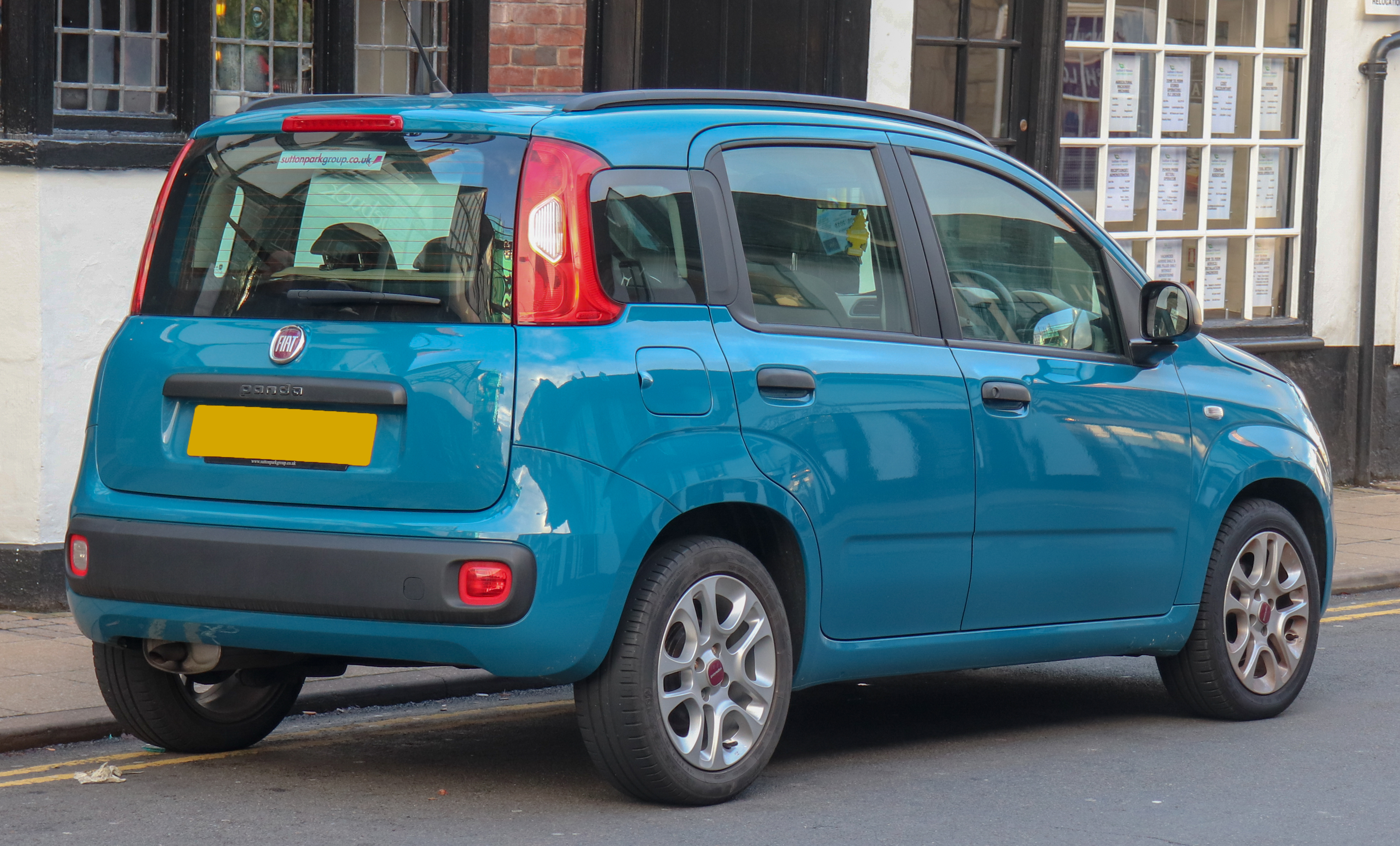 2012 Fiat Panda Easy 1.2 Rear Taken in Warwick